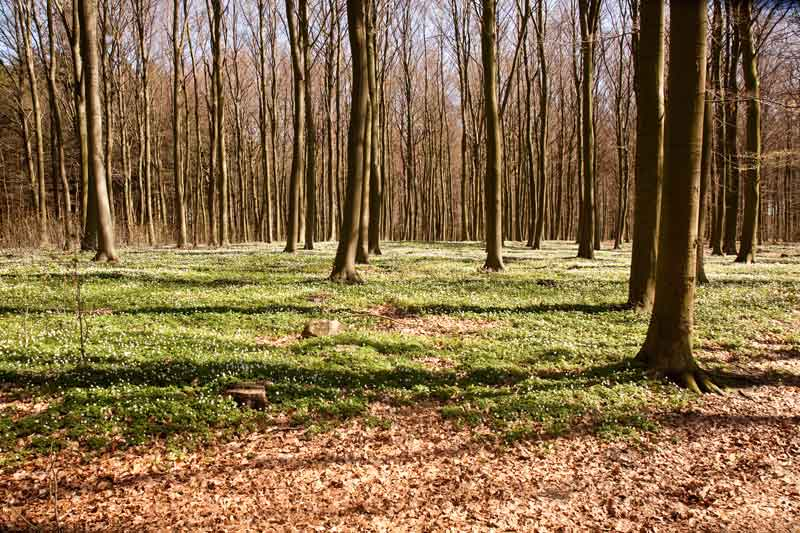 Spring, Geels Skov close to Copenhagen, Denmark. The forest floor covered by Anemone nemorosa.